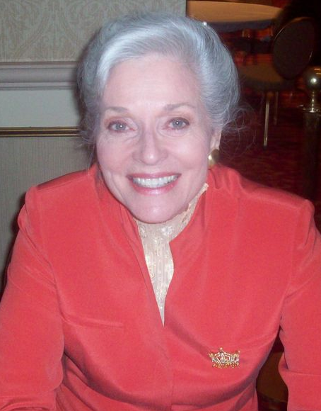 Lee Meriwether, Miss America 1955, signing autographs at a Miss America 2008 event.